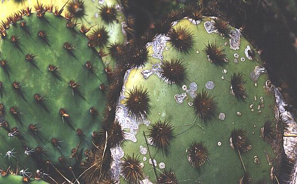 Opuntia